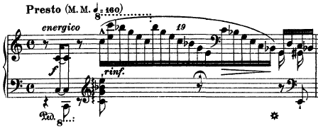 Excerpt from Liszt's Transcendental Etude 1 "Preludio"